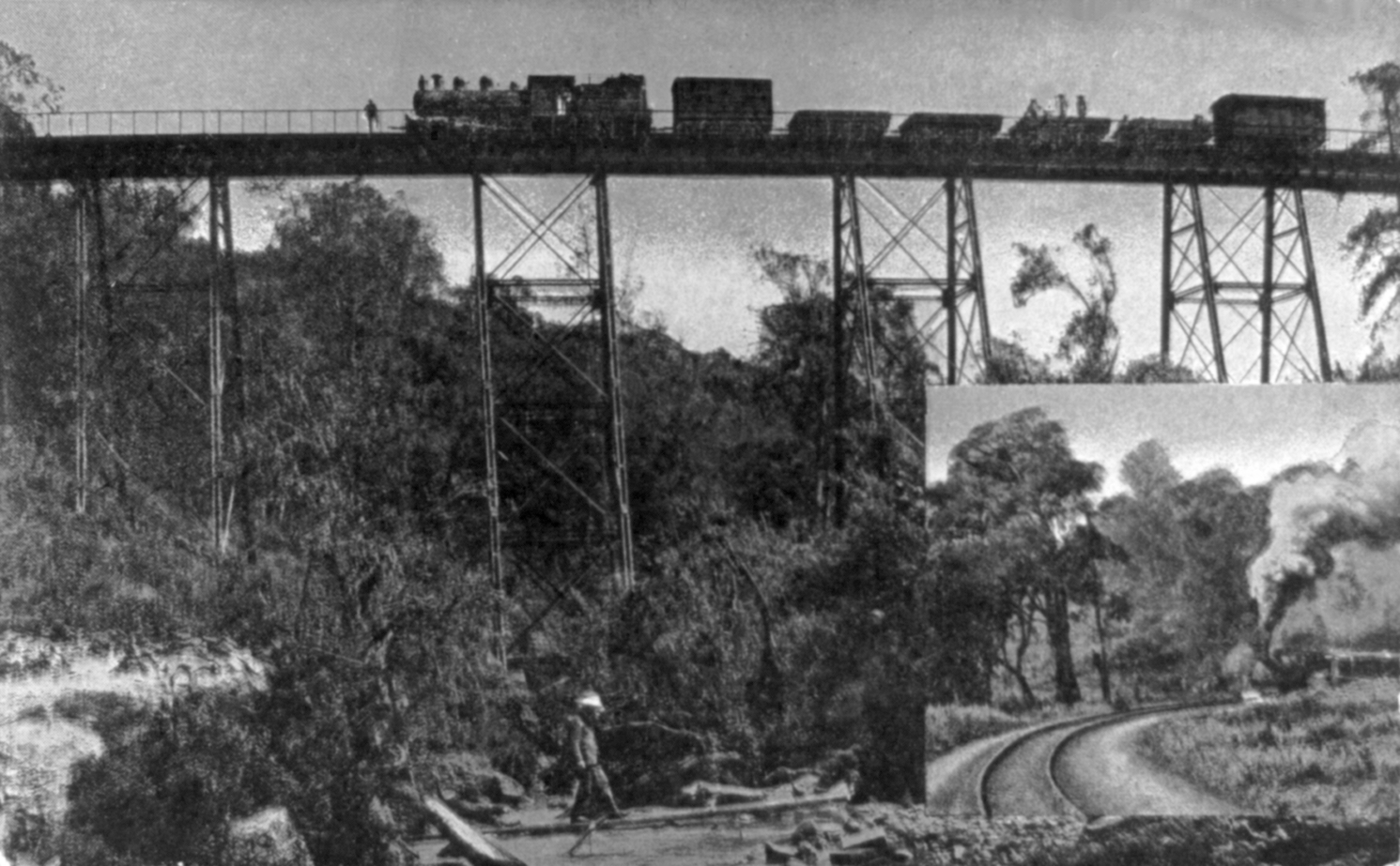 A train on bridge of the Uganda Railway leading from Mombassa to Nairobi; insert in lower right-hand corner shows the train at Mau Summit.